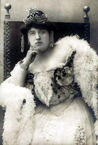 Postcard portrait of the Italian soprano Eugenia Burzio (1872-1922)